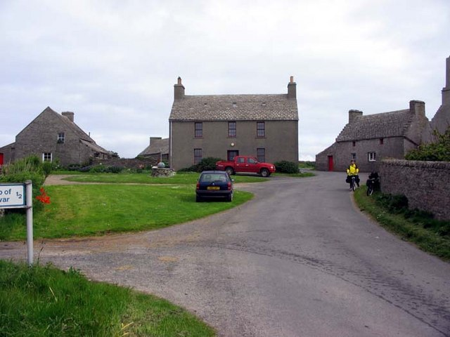 The centre of the island, where all roads meet Holland, Papa Westray